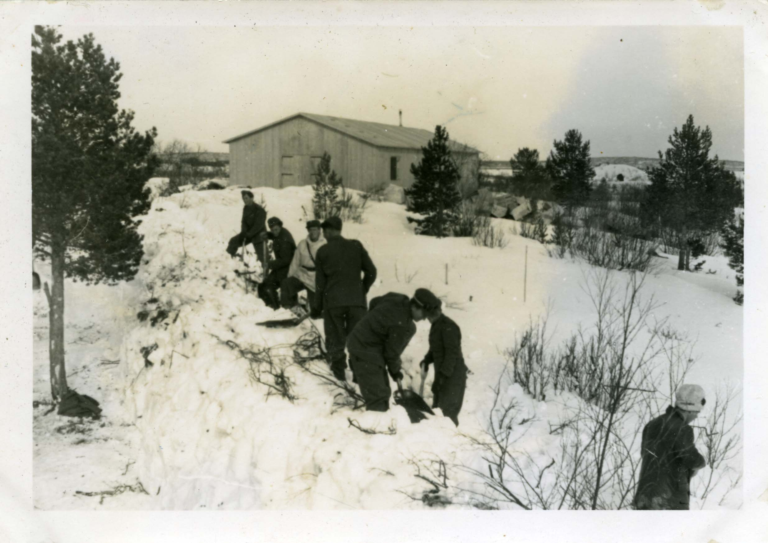 Photo from National Archives of Norway's Flickr-Album "Sykepleier Marie Lysnes' album" ("Album of nurse Marie Lysnes", all images marked with "No known copyright restrictions")